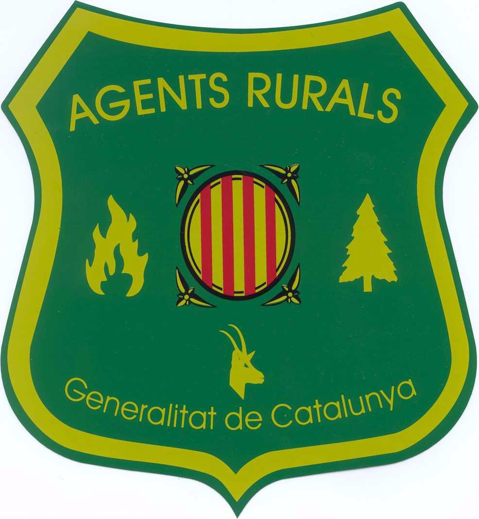 Patches of the Ranger Corps of the Government of Catalonia, period 2004-2010